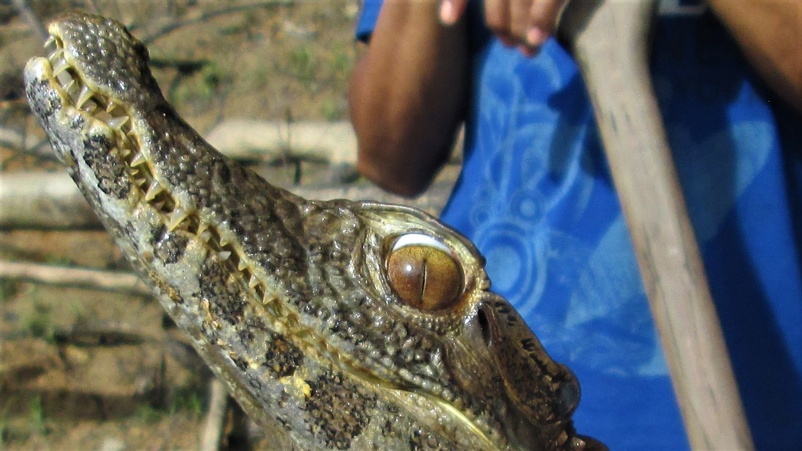 The slow moving waters of the Yasuni River are perfect for hosting caiman species such as the one pictured here.